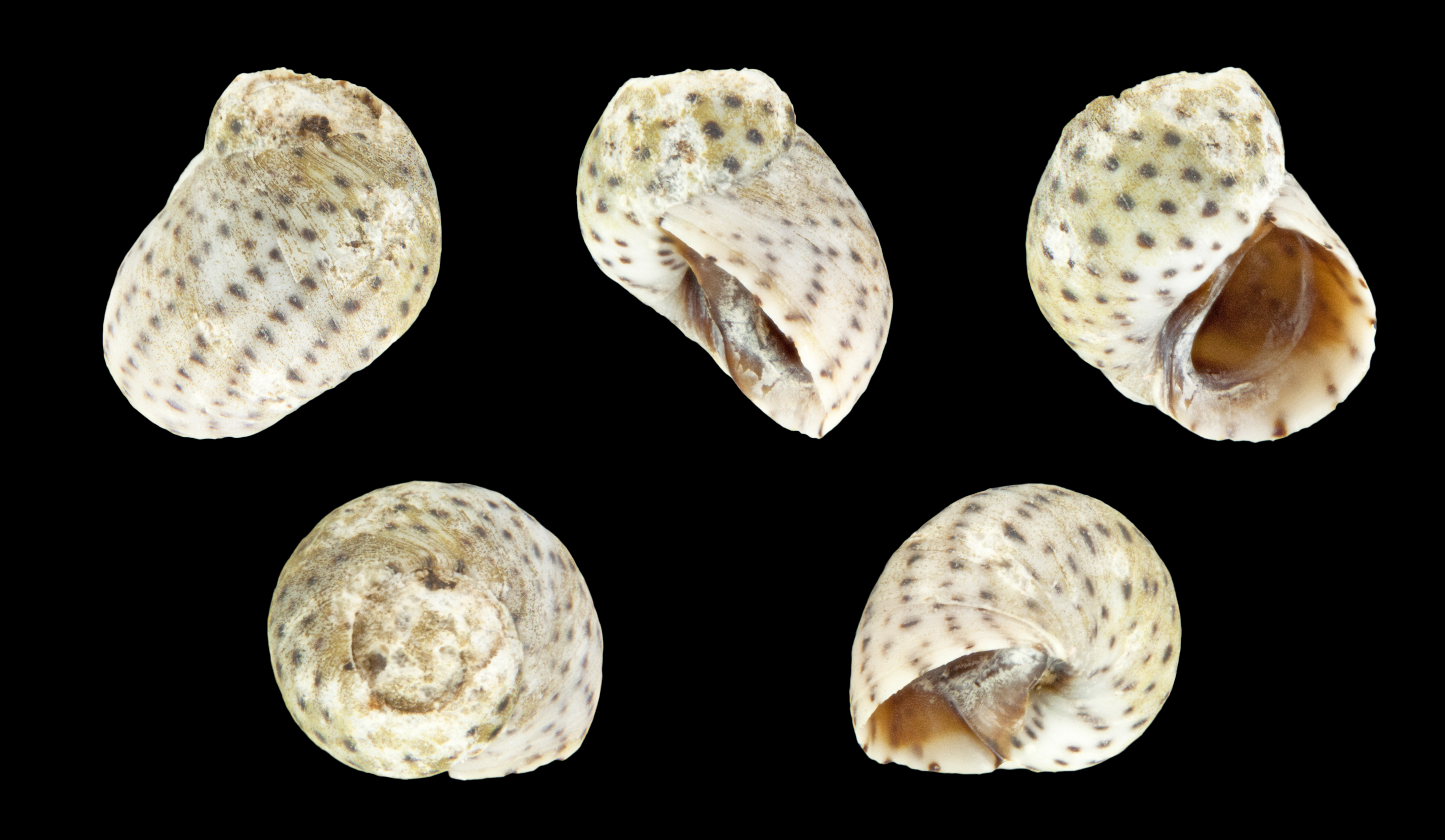 Echinolittorina mespillum var. minima (Wood, 1828) ; Height 0.7 cm; Originating from Aruba, Lesser Antilles; Shell of own collection, therefore not geocoded.